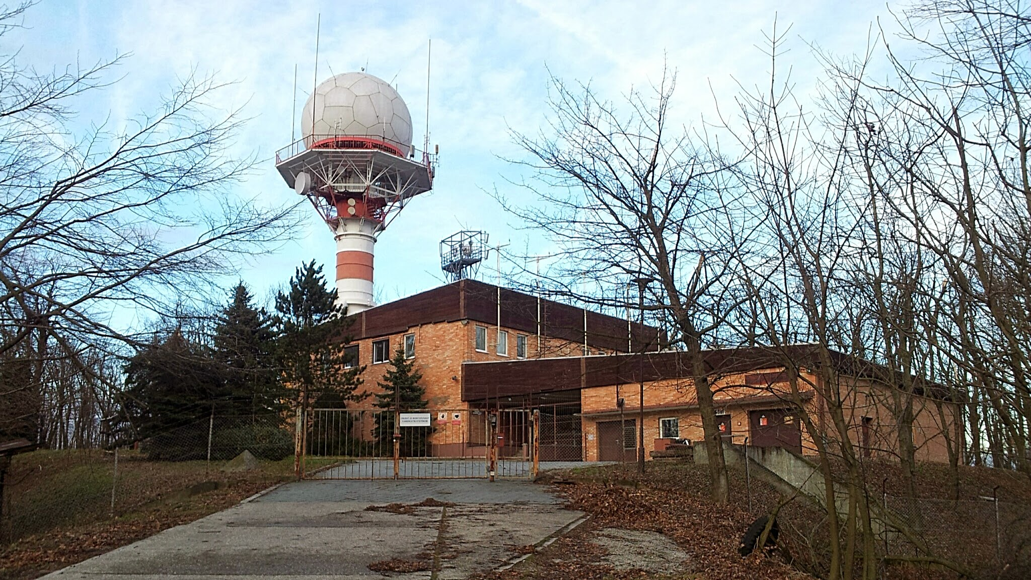 Secondary airport surveillance radar ont the top of Veľký Javorník in Malé Karpaty mountain range, above Svätý Jur city, Slovakia.